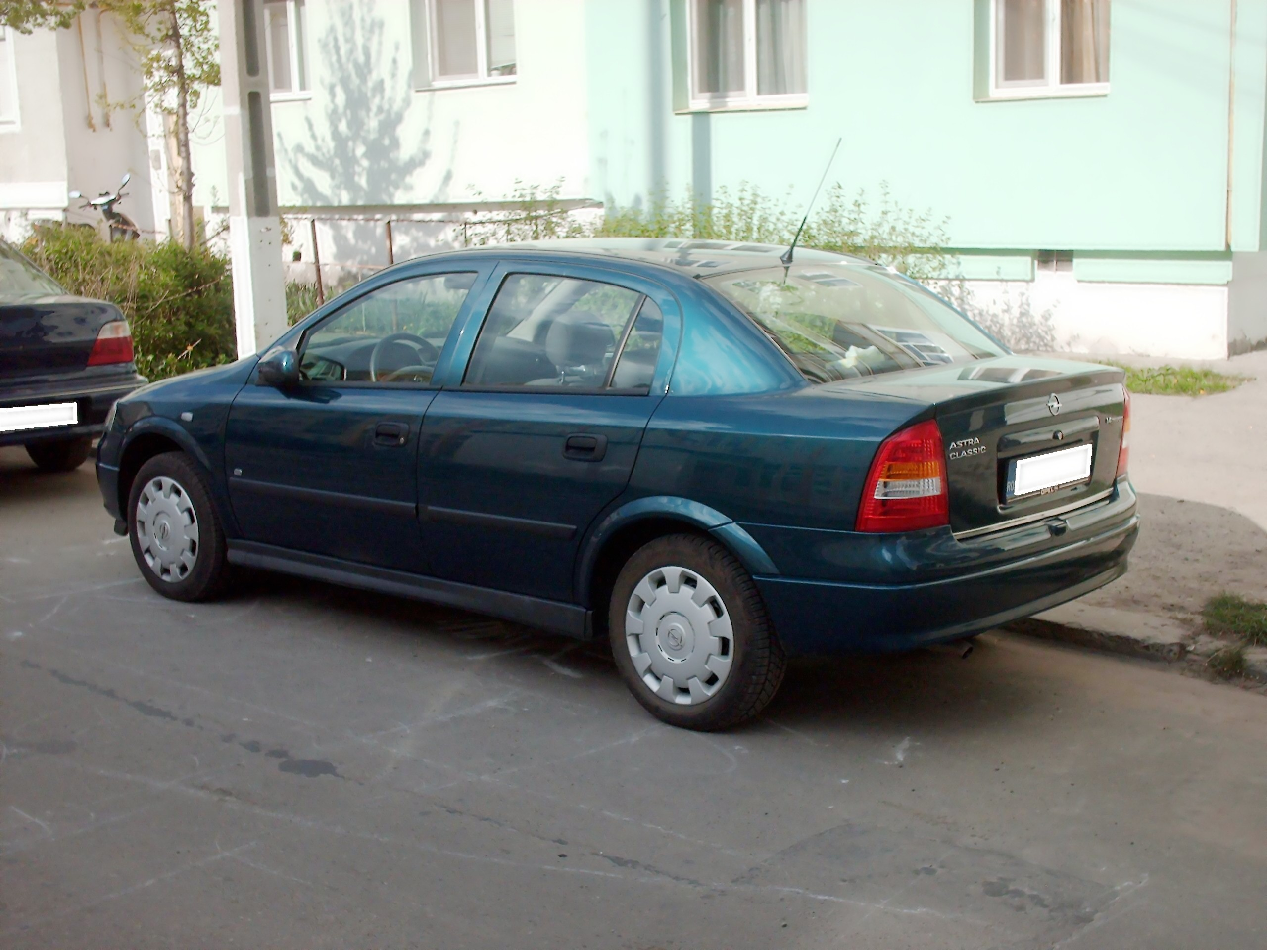 Photo of my Astra G Sedan